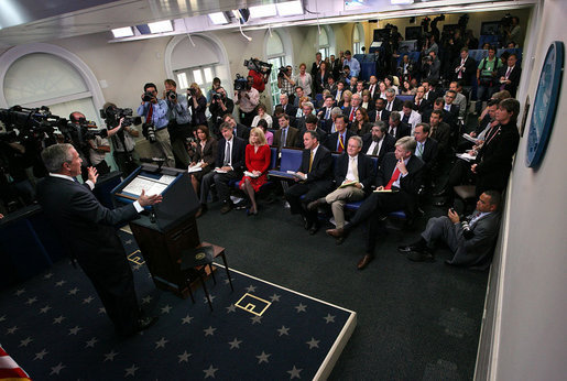 President George W. Bush holds a press conference Wednesday, Oct. 17, 2007, in the James S. Brady Press Briefing Room. "Congress has work to do on the budget. One of Congress's basic duties is to fund the day-to-day operations of the federal government," said President Bush. "Yet Congress has not sent me a single appropriations bill."